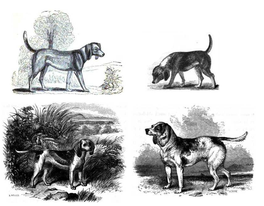 Mid 19th century depictions of Beagles